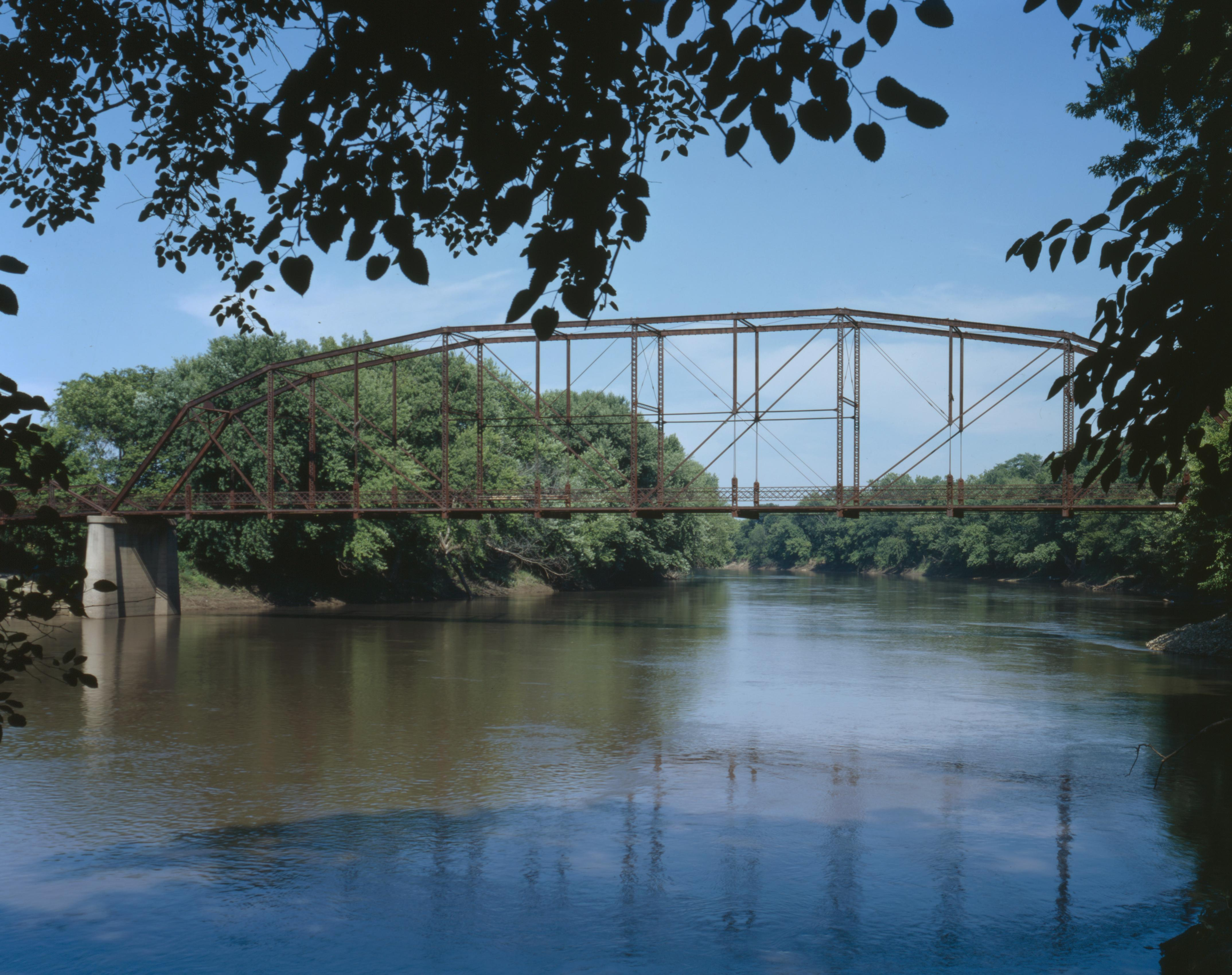 Bridgeport Bridge spanning Skunk River, Lee County, Iowa, USA, near Denmark.